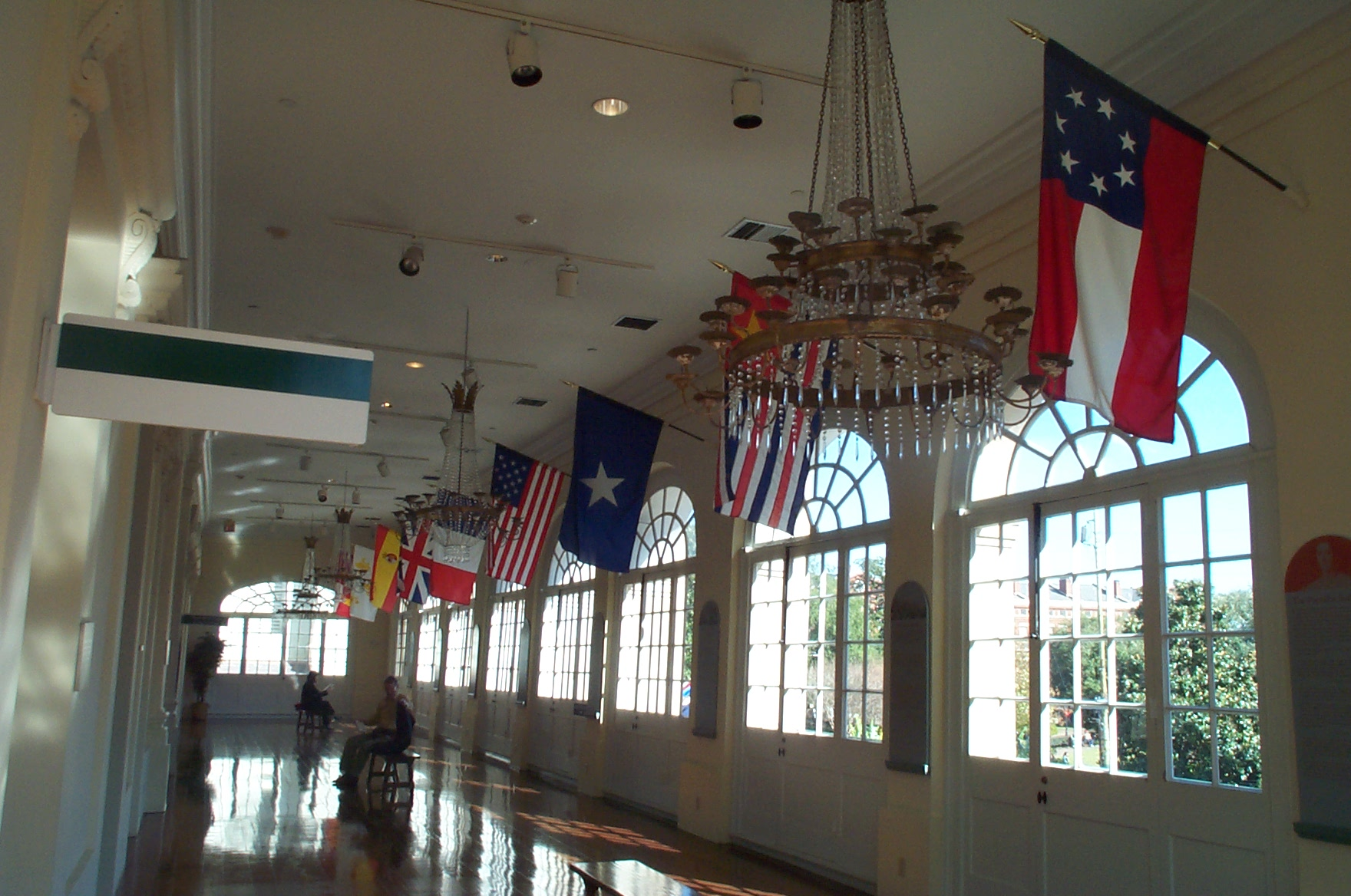 New Orleans Upstairs gallery in the Cabildo on Jackson Square